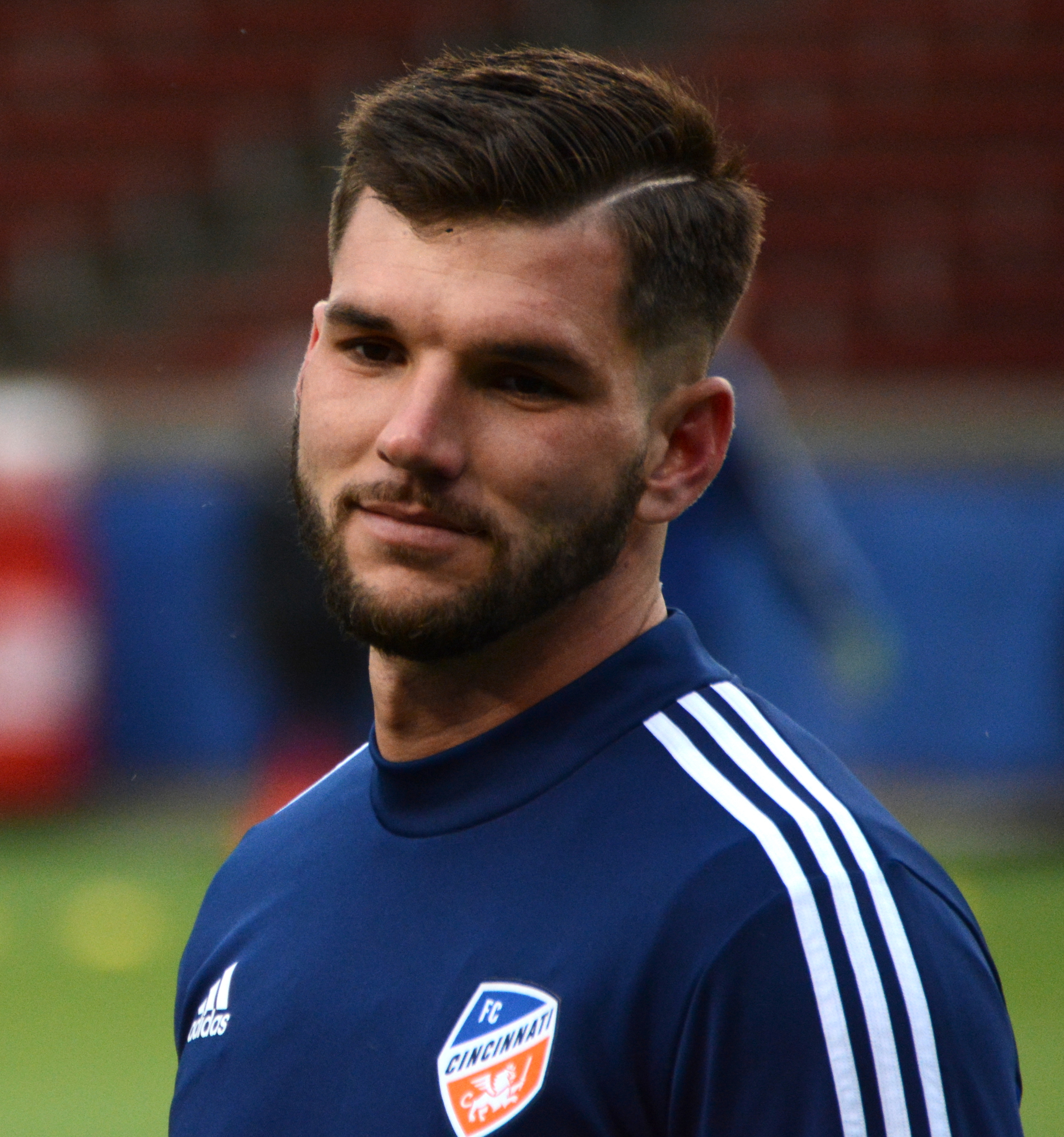 Taken during practice before a Major League Soccer regular season match between FC Cincinnati and Real Salt Lake at Nippert Stadium in Cincinnati, USA on April 19, 2019